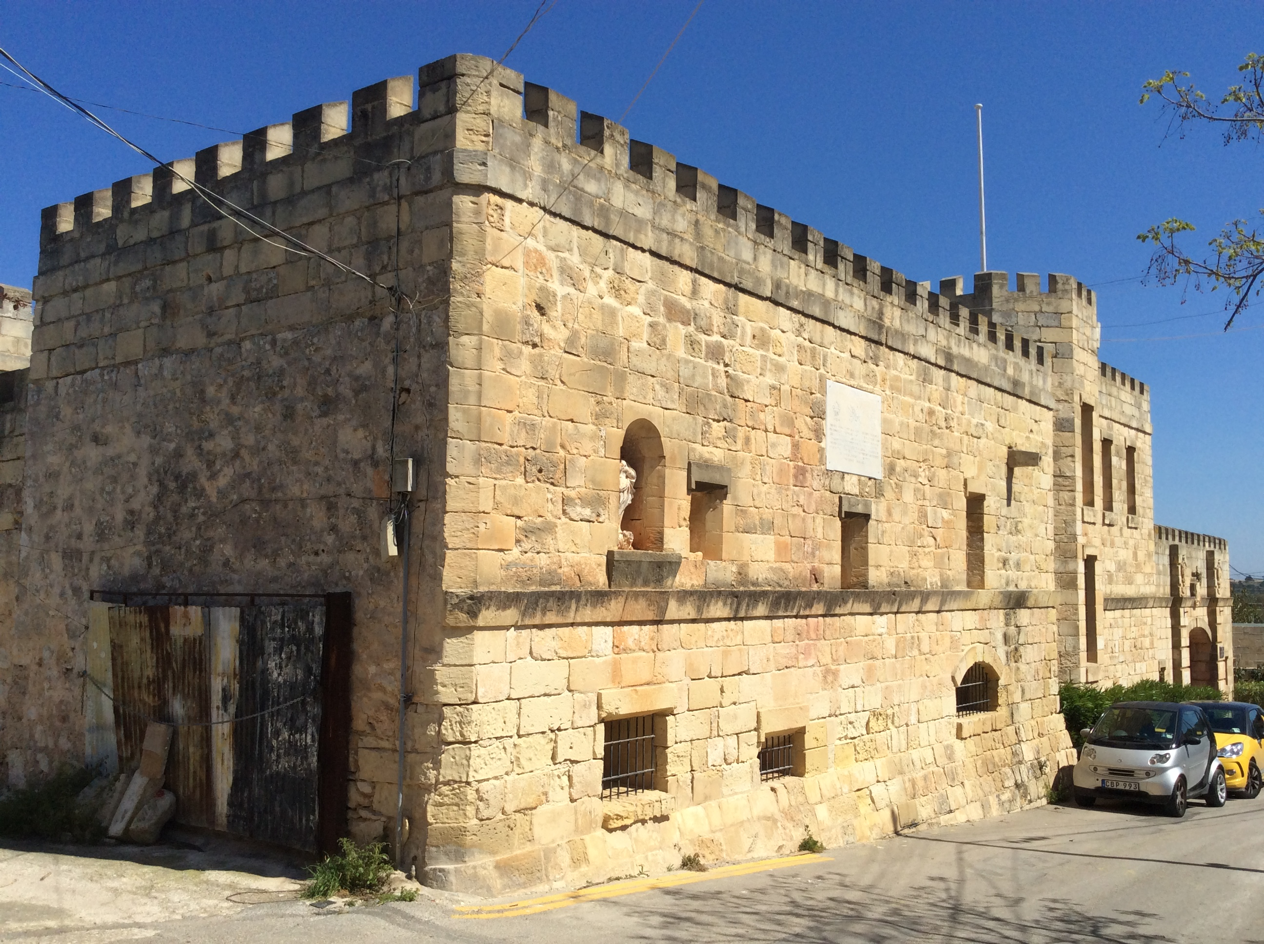 Hunting lodge build during the magistracy of Perellos and Castello dei Baroni